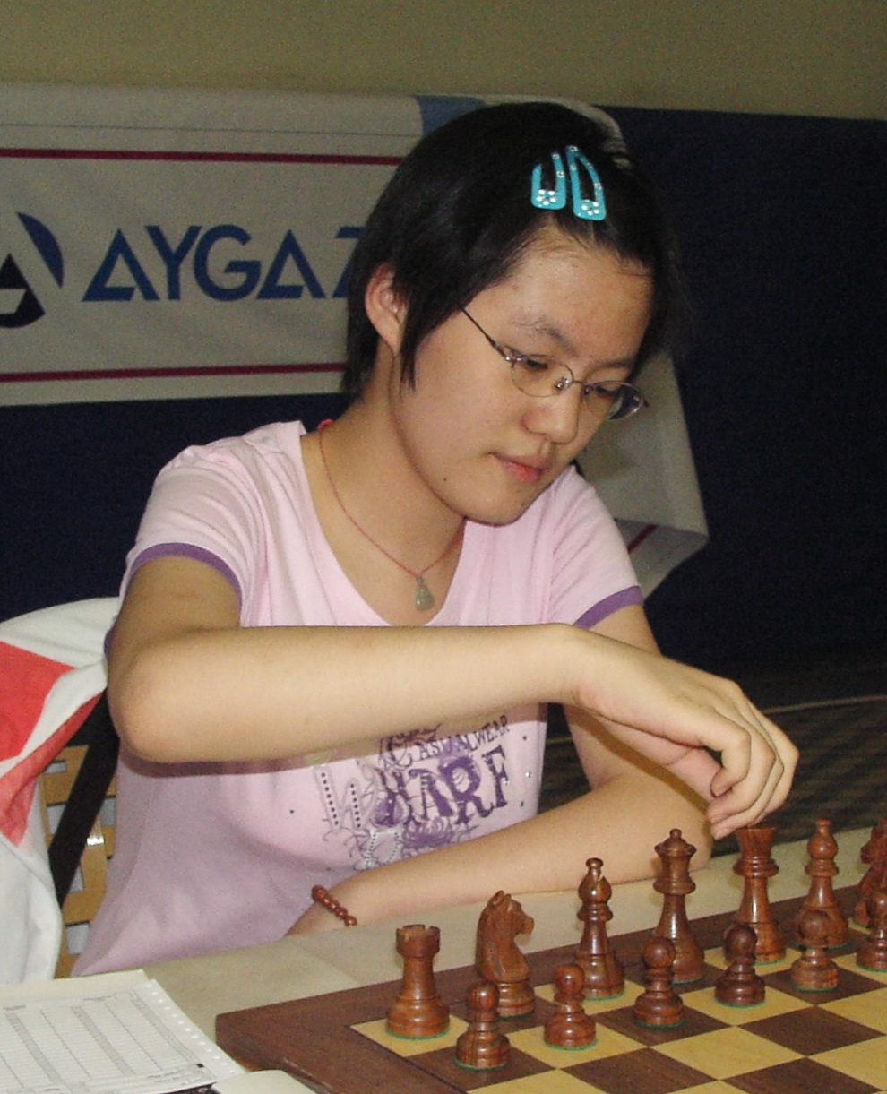 WGM Hou Yifan People's Republic of China, World Junior Chess Championship, Gaziantep 2008